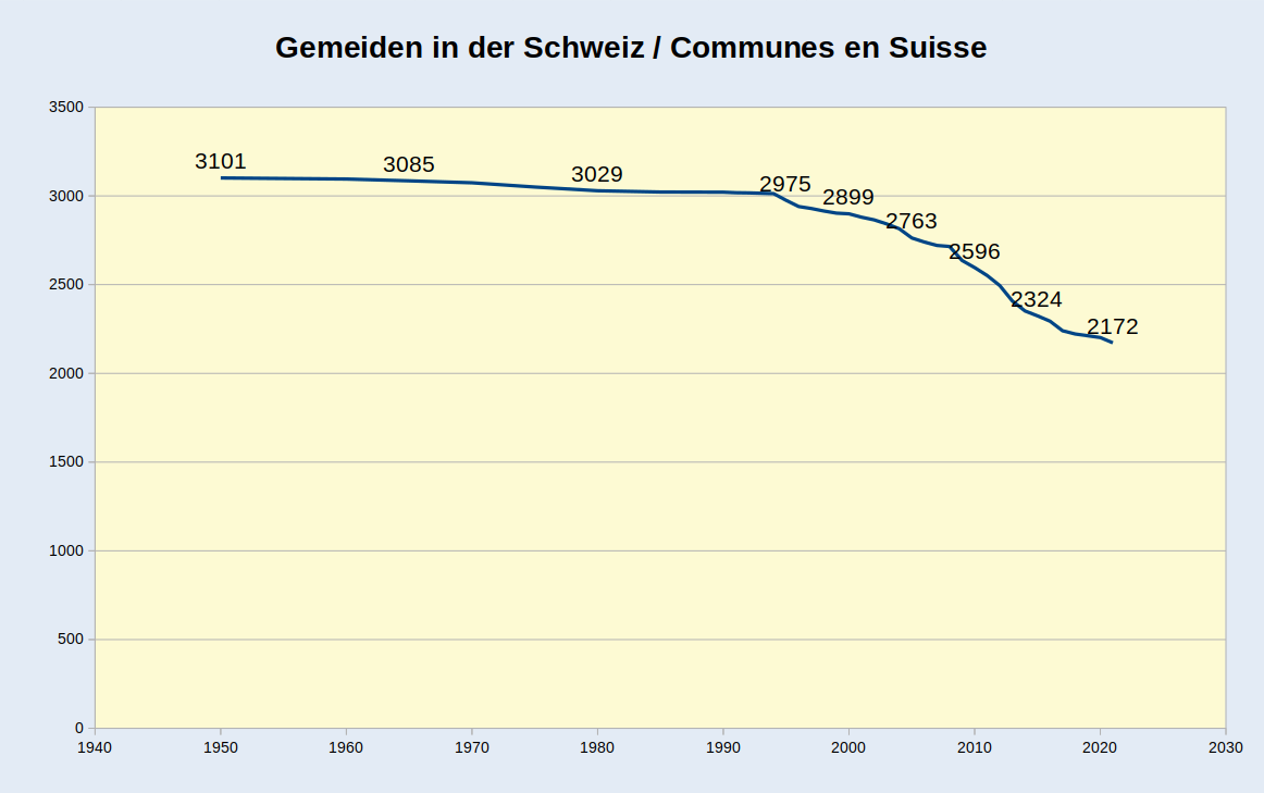 The development of the municipalities of Switzerland from the introduction of the public municipalities register in 1950 till April 2016. The continuous reduction in the number of municipalities since mid-90s can bee seen. In 2007 for the first time there were more inhabitants per municipality than there were municipalities.